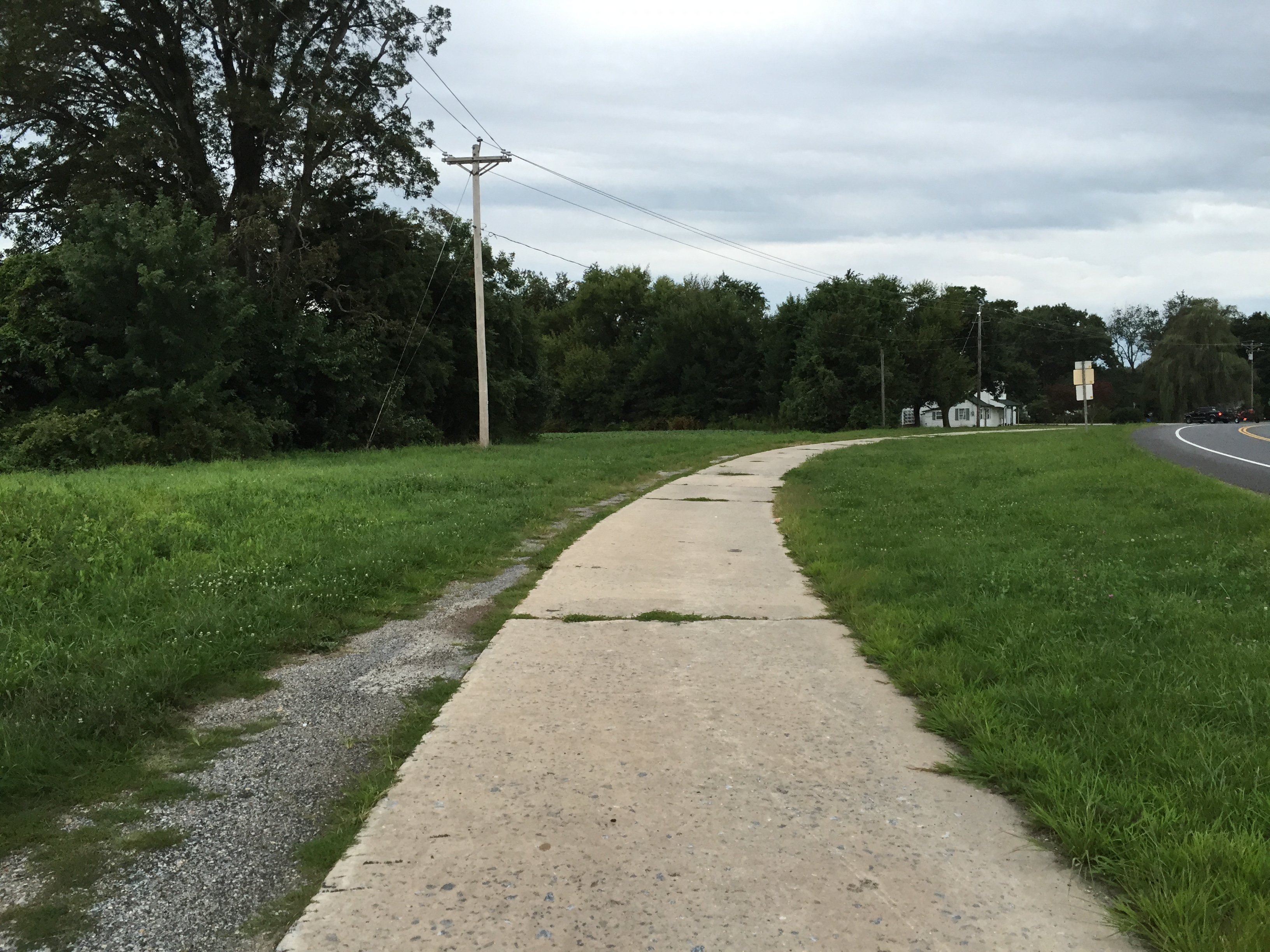 View west along Maryland State Route 856 at Maryland State Route 298 (Lambs Meadow Road) in Lynch, Kent County, Maryland